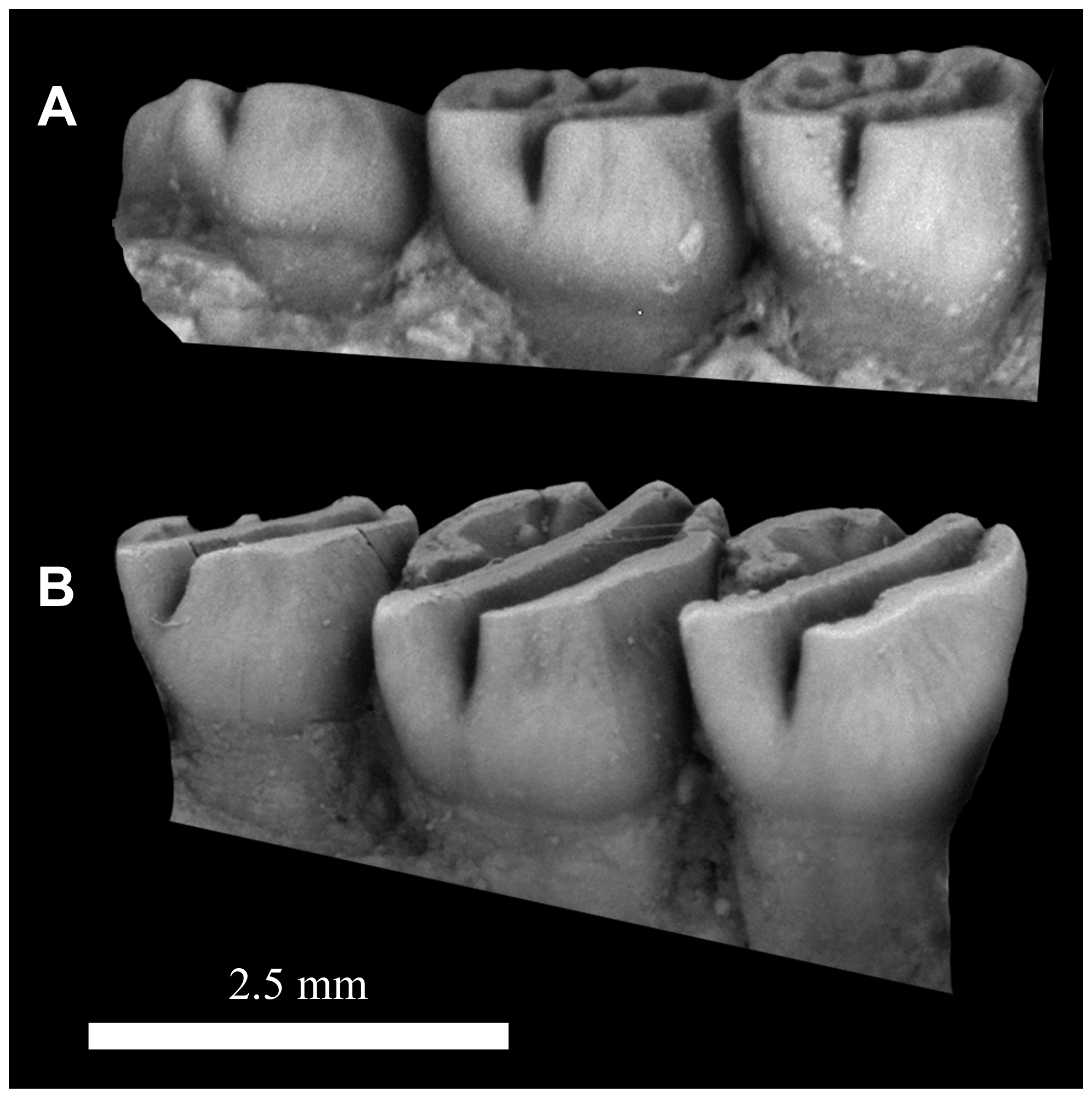 Lingual view of the right upper molars of: A, Gaudeamus aslius, CGM 66006; B, Gaudeamus hylaeus, CGM 66007, showing the degree to which lingual hyposodonty is expressed in each species.